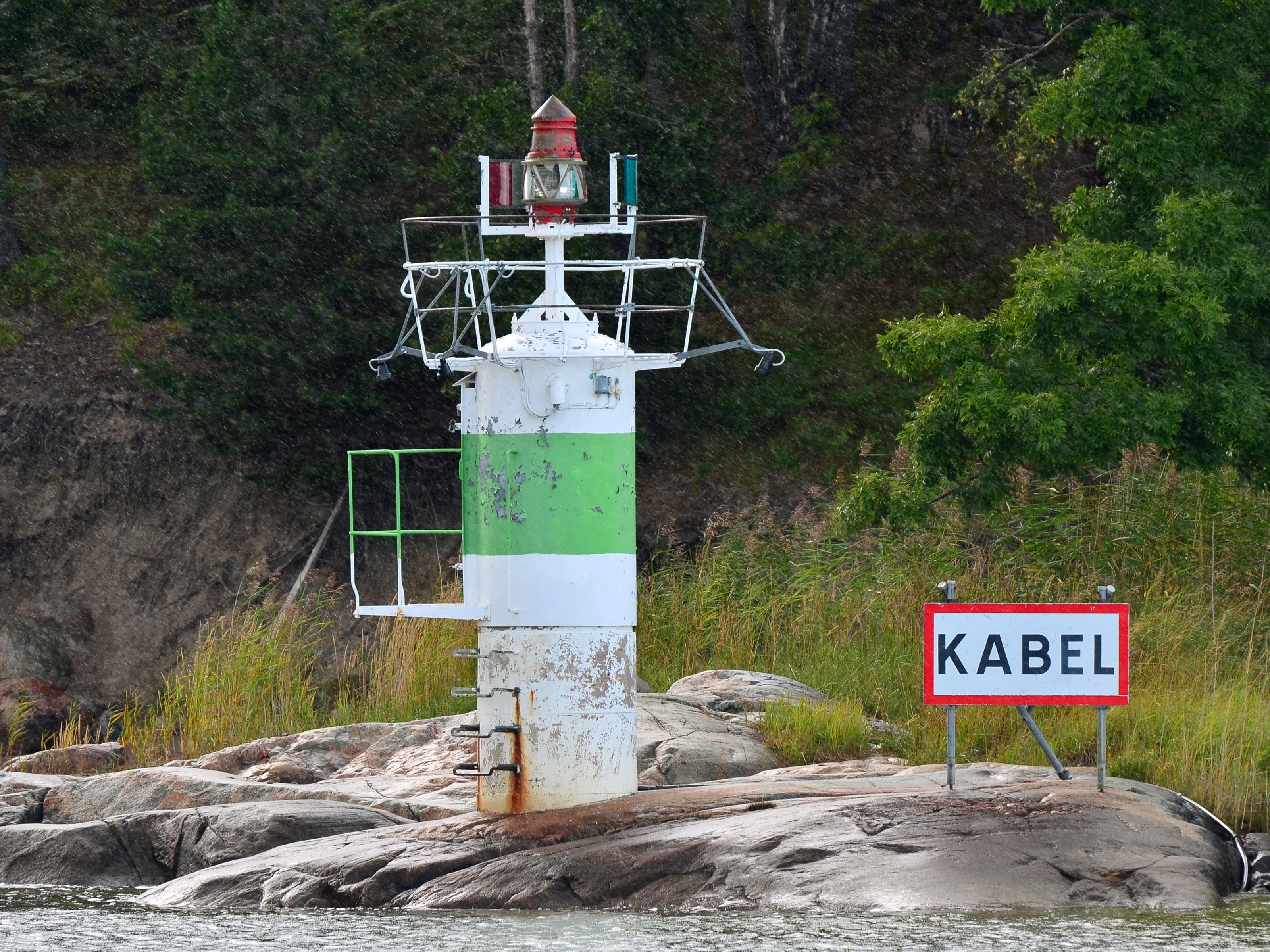 The lighthouse Nykvarnsholmen by Bammarboda in Stockholm archipelago, Sweden.